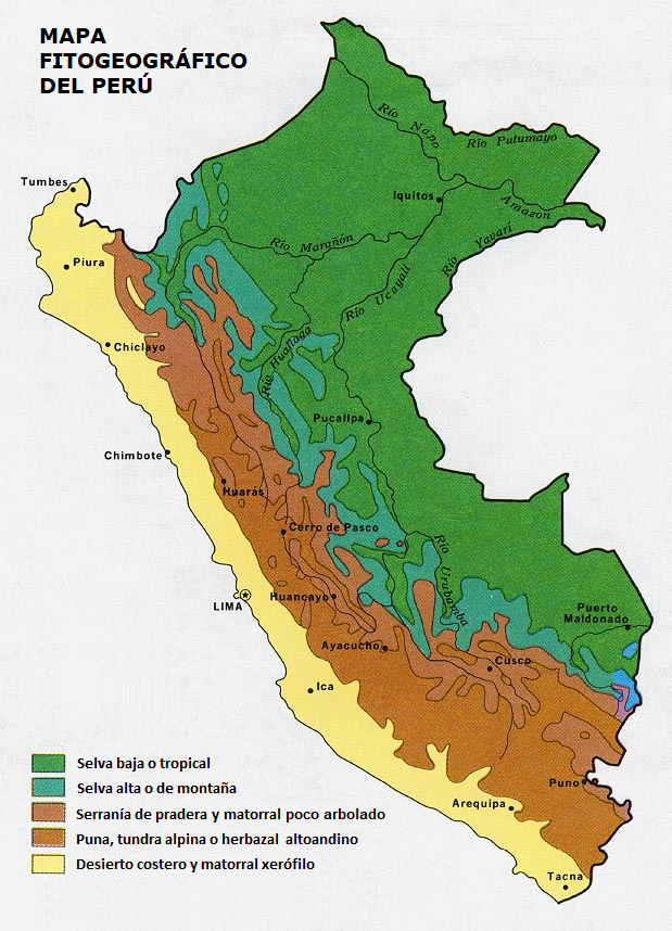 Vegetation map of Peru.